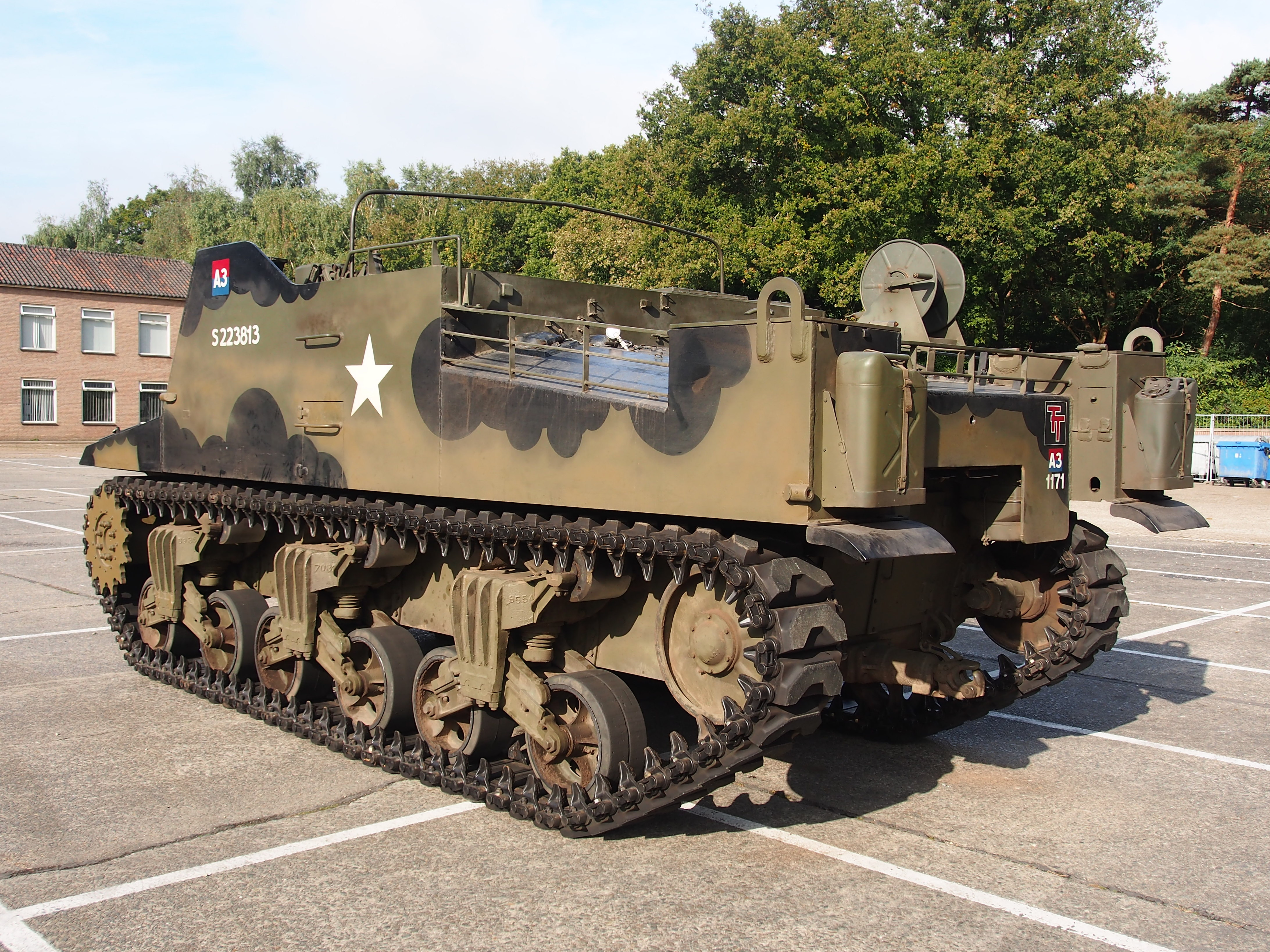 Sexton 25pdr S223813 at the Cavalry museum on the "Friends of the museum day"